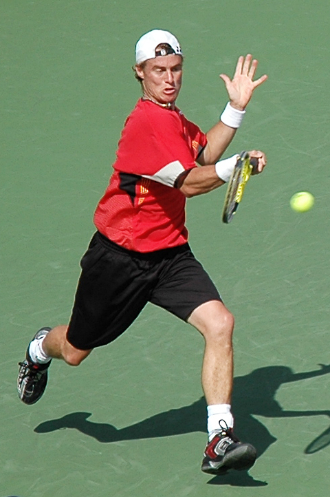 Lleyton Hewitt at 2006 US Open, New York, United States